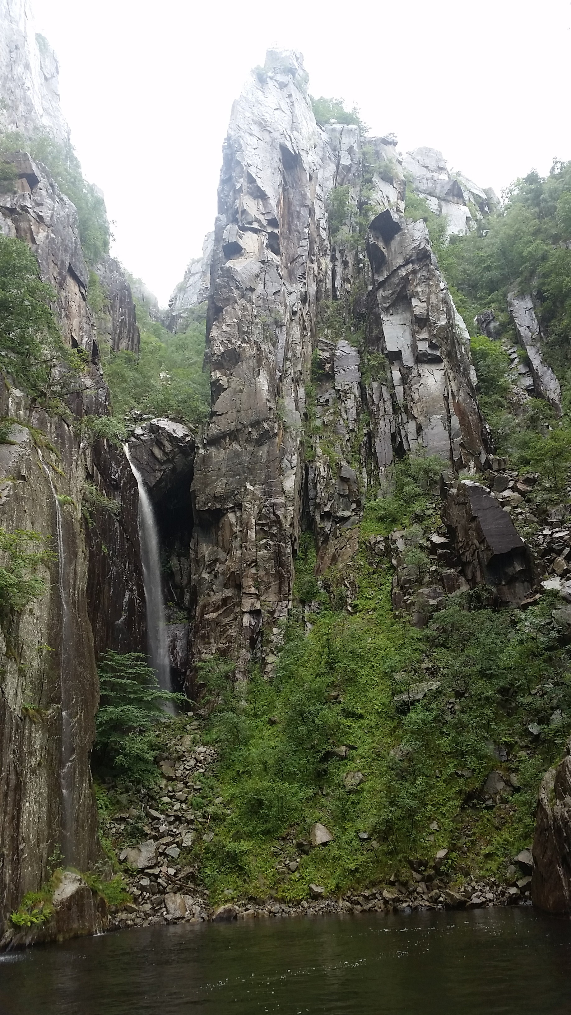 Fantehola.